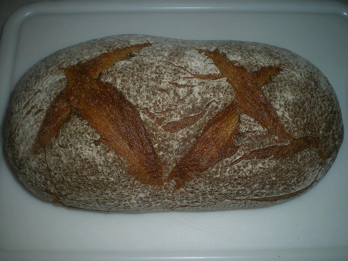 Loaf of rye bread